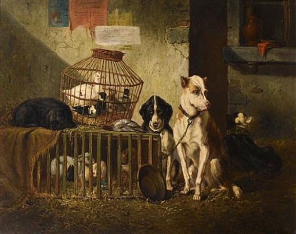 At the market